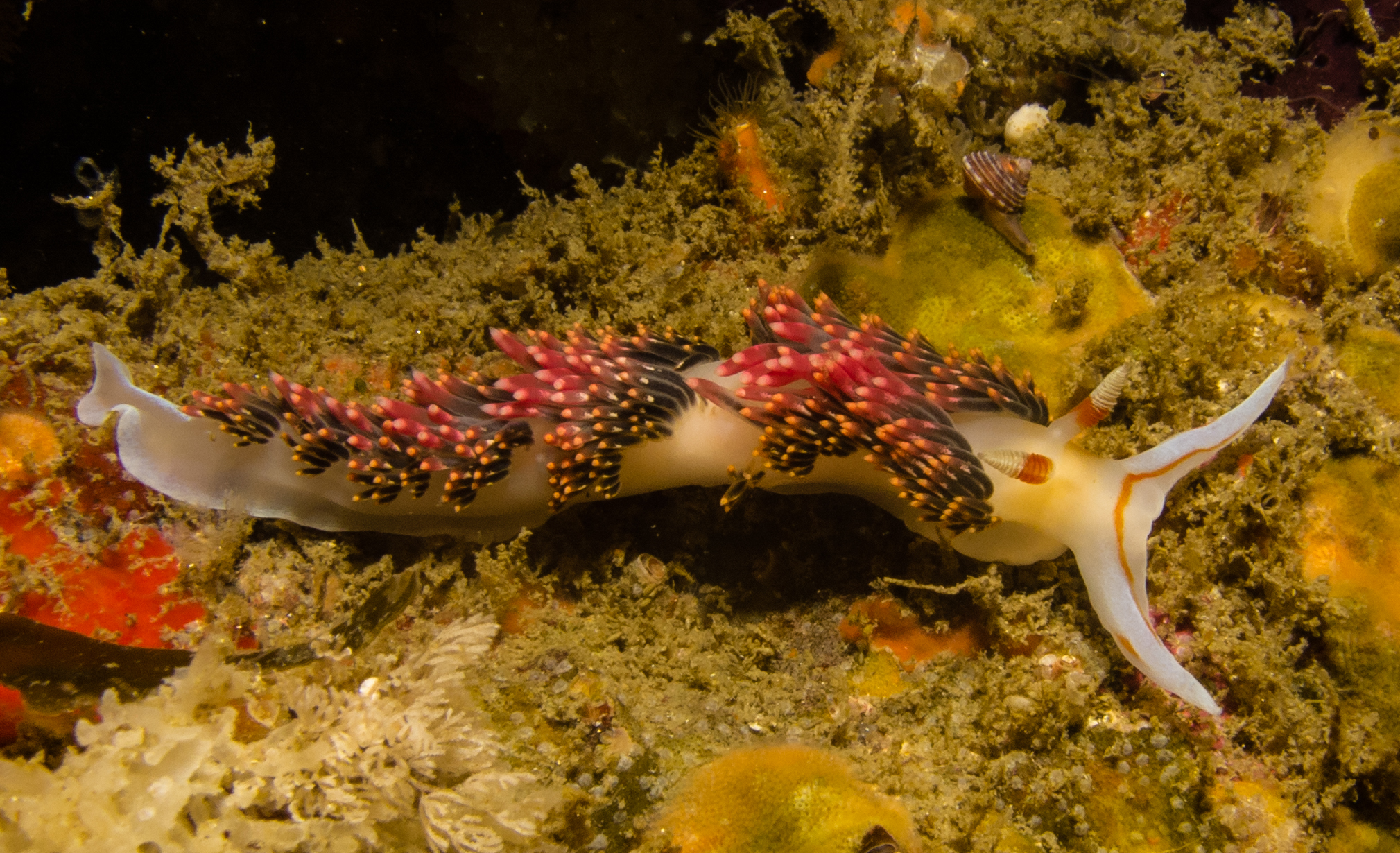 Phidiana hiltoni, Carmel, California